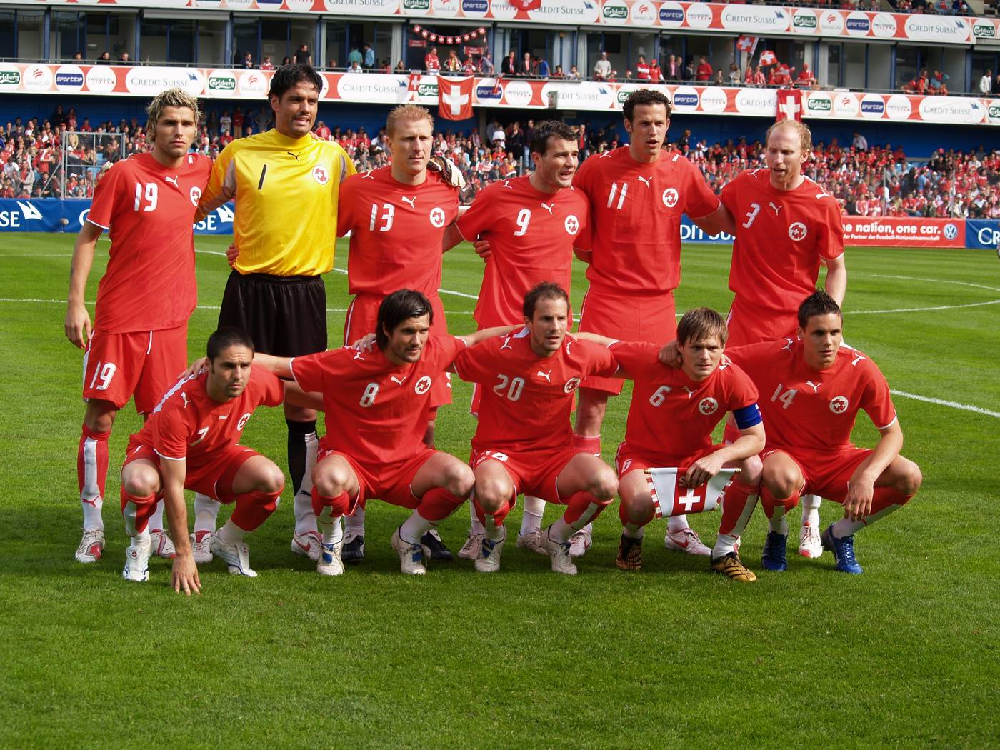 The Swiss national football team before a Testspiel (friendly match) against China. (4:1, Hardturm, Zürich) Team (source [1]): 19 Behrami, Valon 1 Zuberbühler, Pascal 13 Grichting, Stéphane 9 Frei, Alexander 11 Streller, Marco 3 Magnin, Ludovic 7 Cabanas, Ricardo 8 Wicky, Raphael 20 Müller, Patrick 6 Vogel, Johann 14 Degen, David